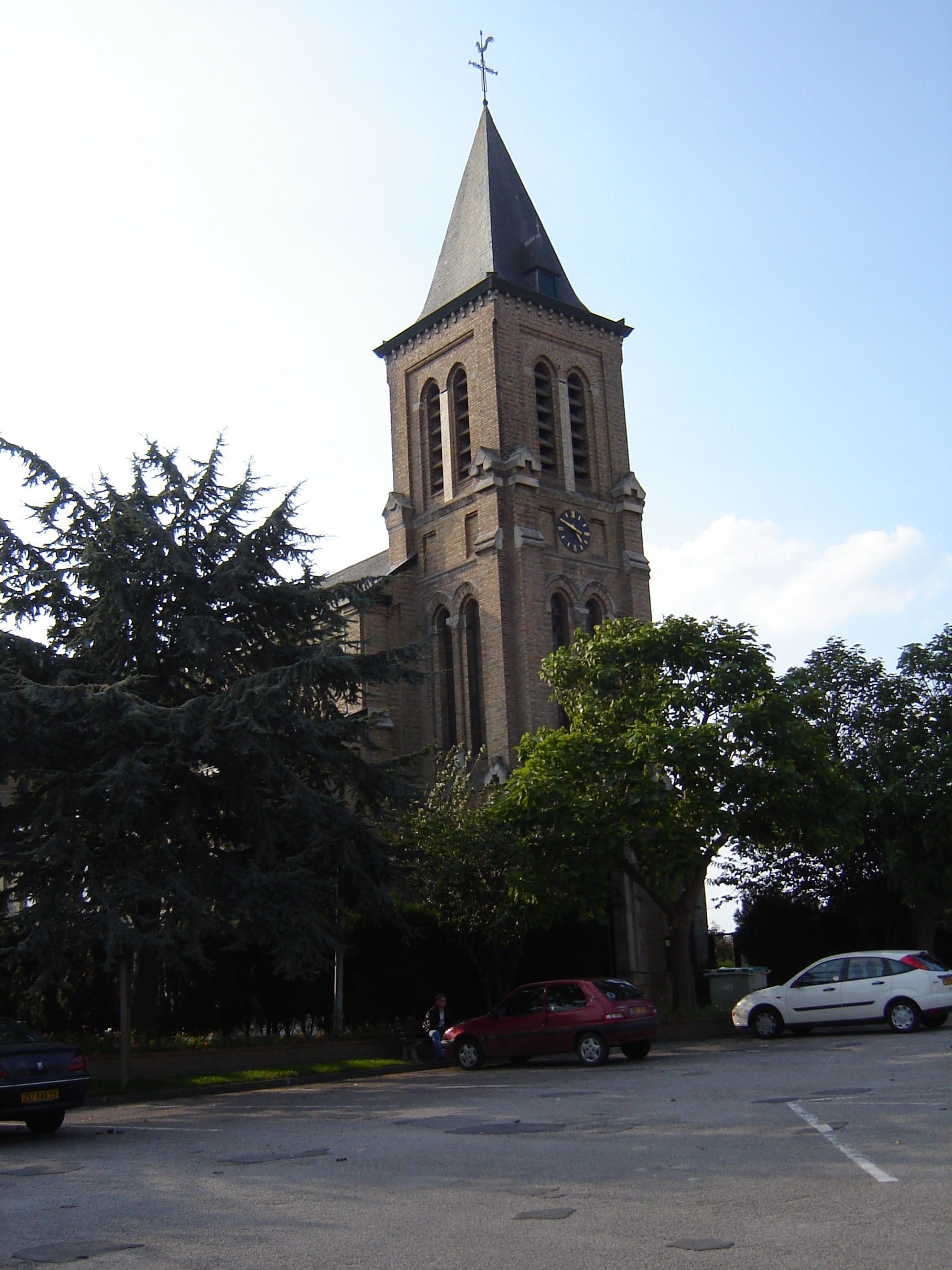 Church of Saint Vincent in Ghyvelde. Ghyvelde, Nord, Nord-Pas-de-Calais, France